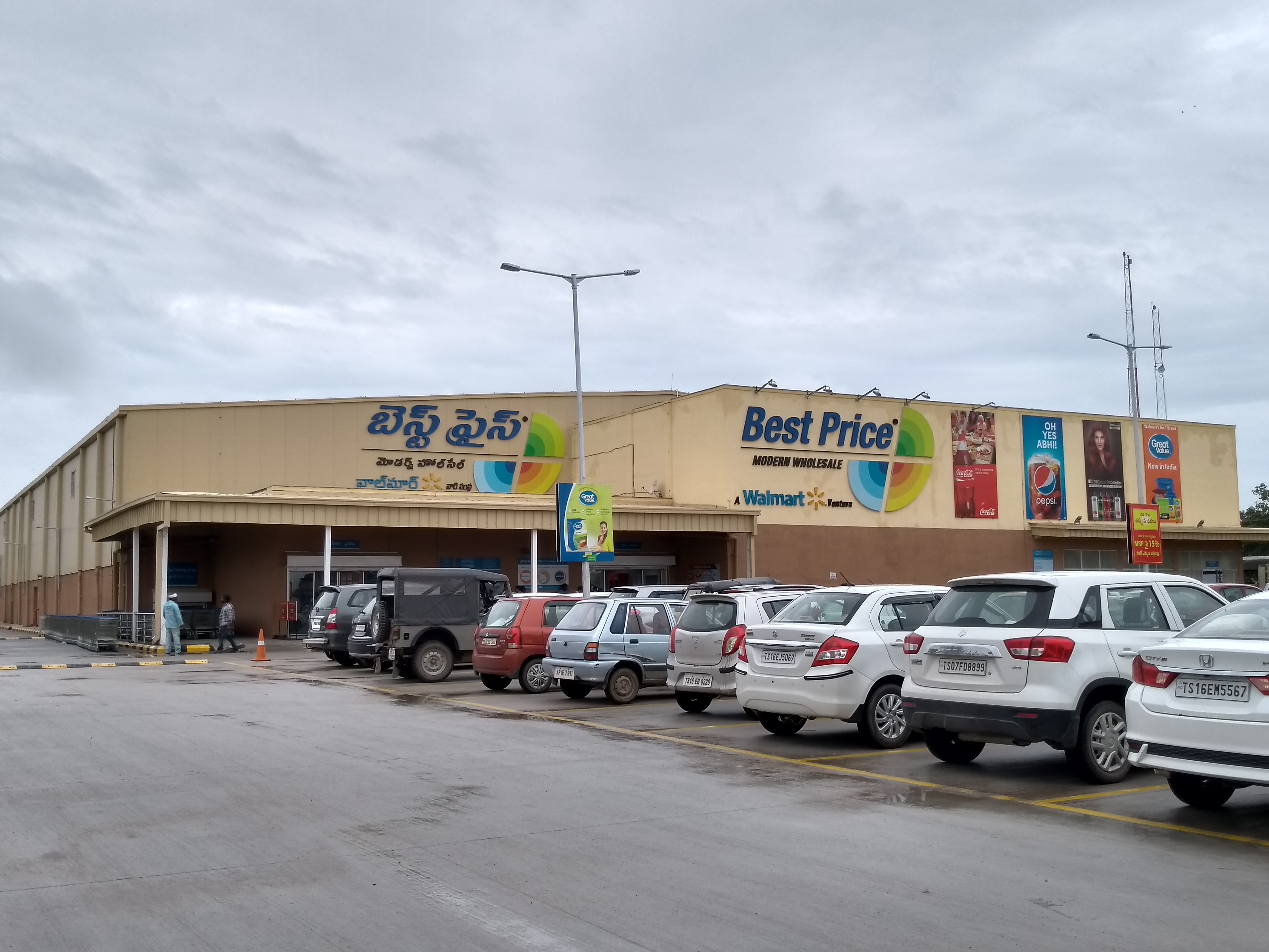 Walmart's Best Price Store in Nizamabad